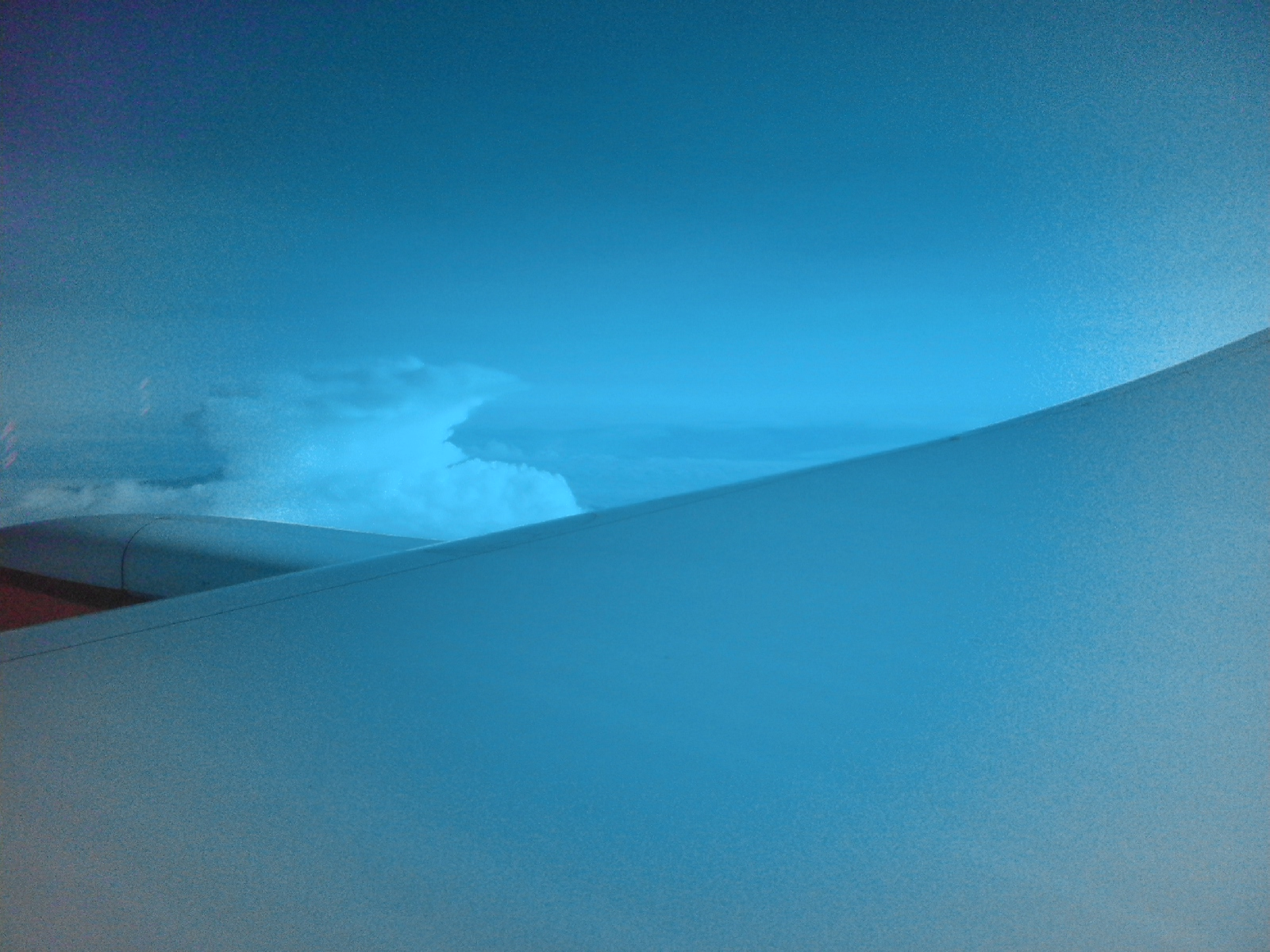 top of cumulo nimbus viwed from an airplane above DRC